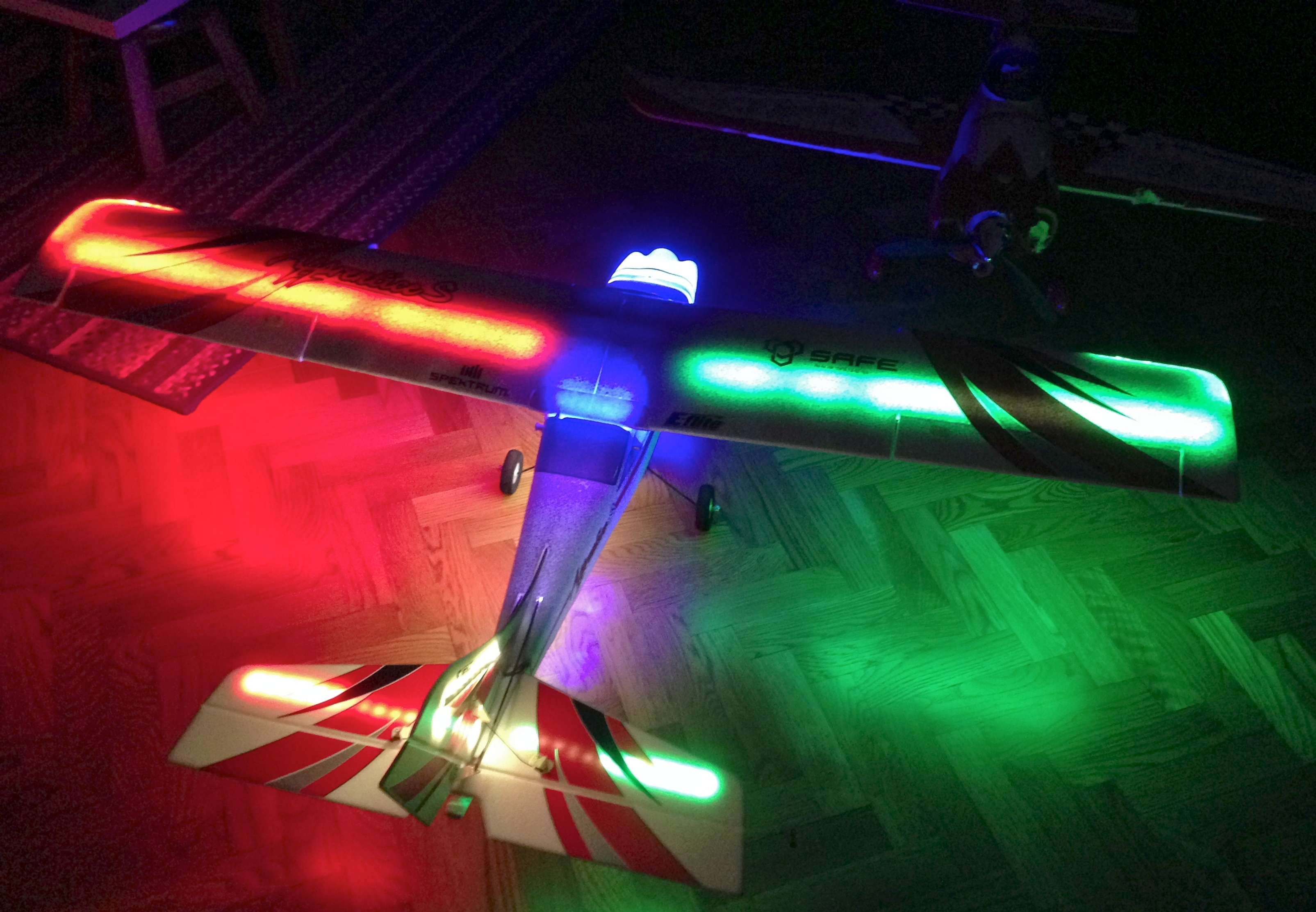 An E-flite Apprentice S 15e Radio-controlled aircraft with custom LED lights for night flying